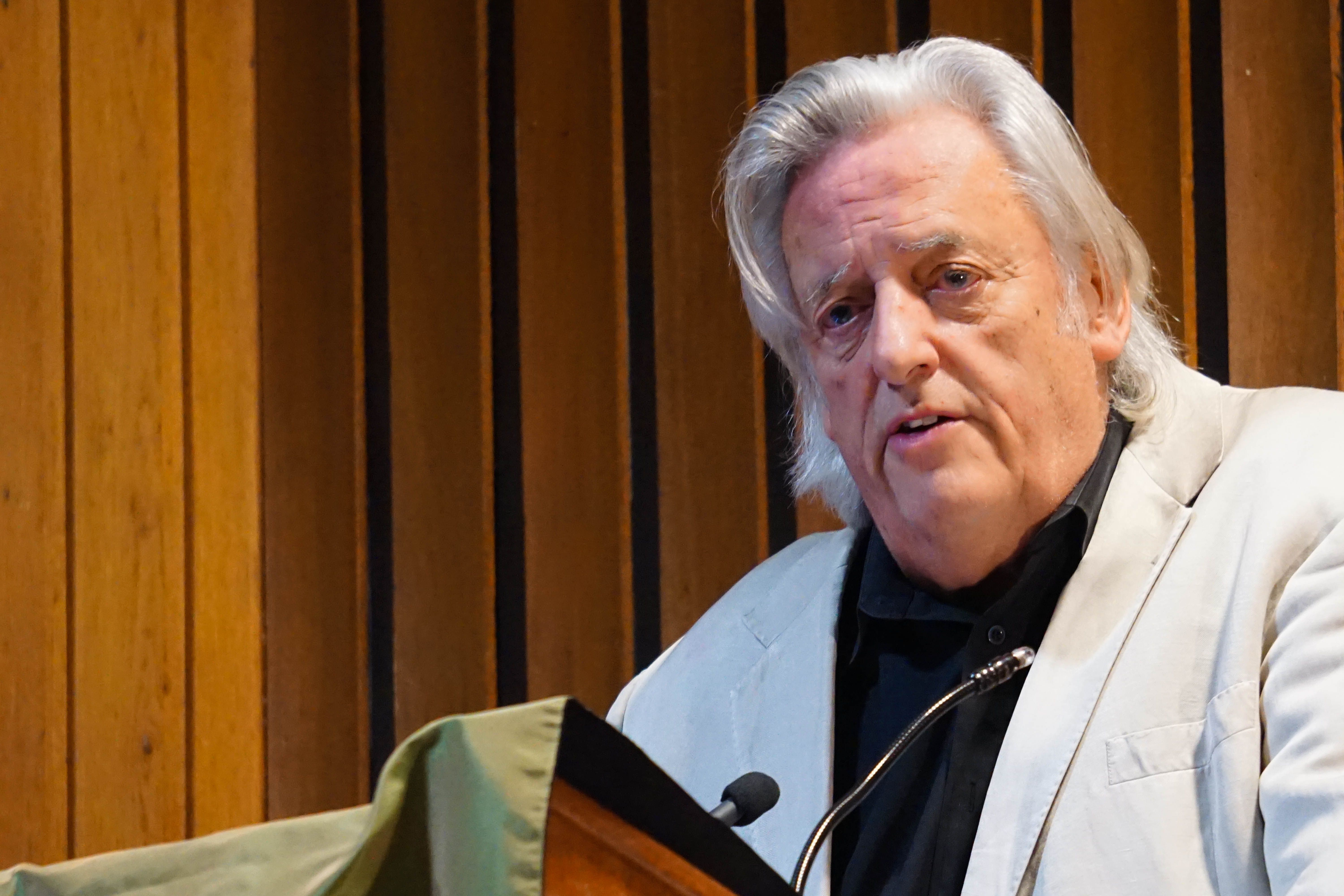 Michael Mansfield QC gives the first Gerry Conlon Memorial Lecture at St. Mary’s College Belfast in January 2015.